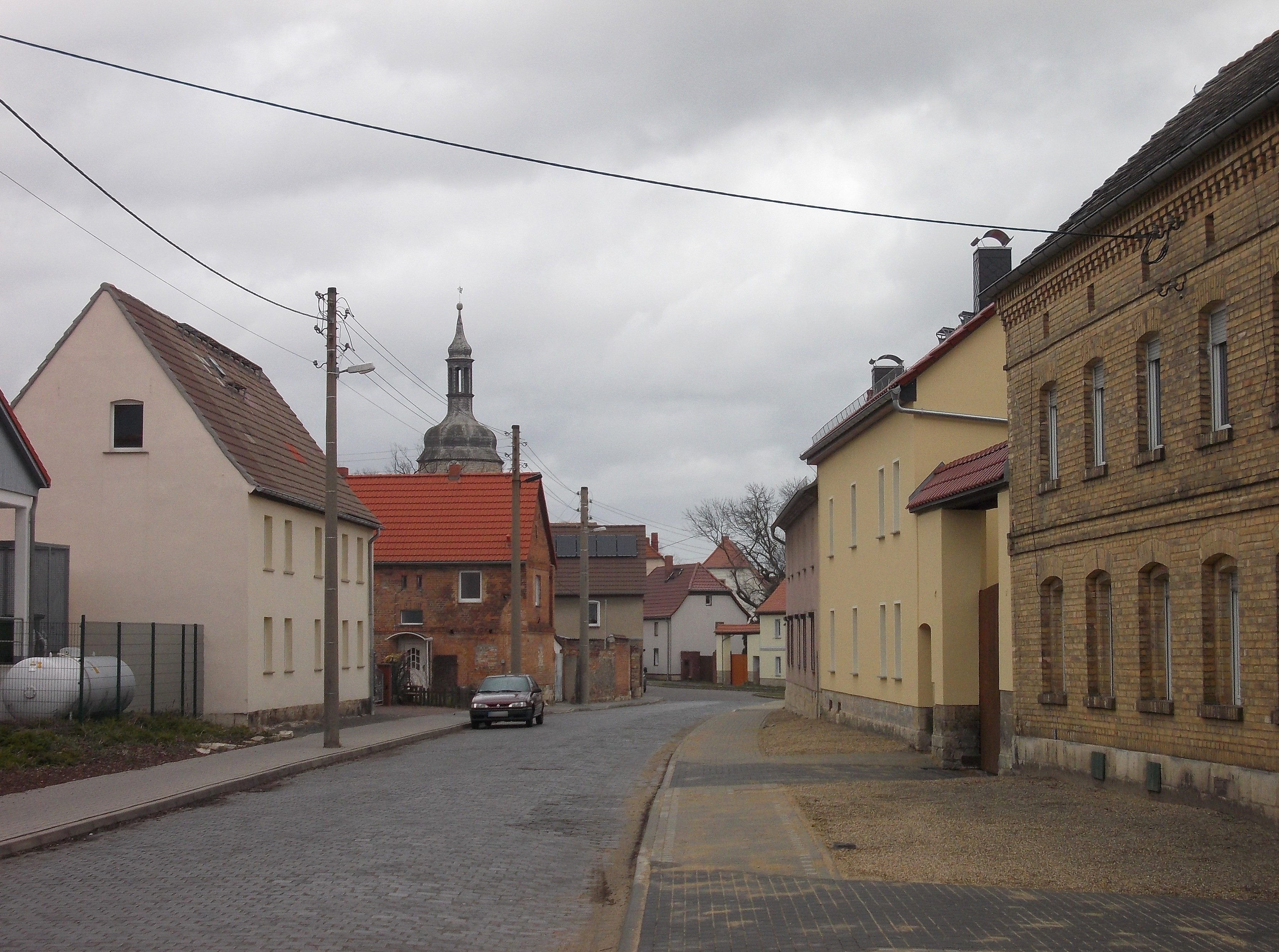 Hauptstrasse in Braunsdorf (Braunsbedra, district: Saalekreis, Saxony-Anhalt)